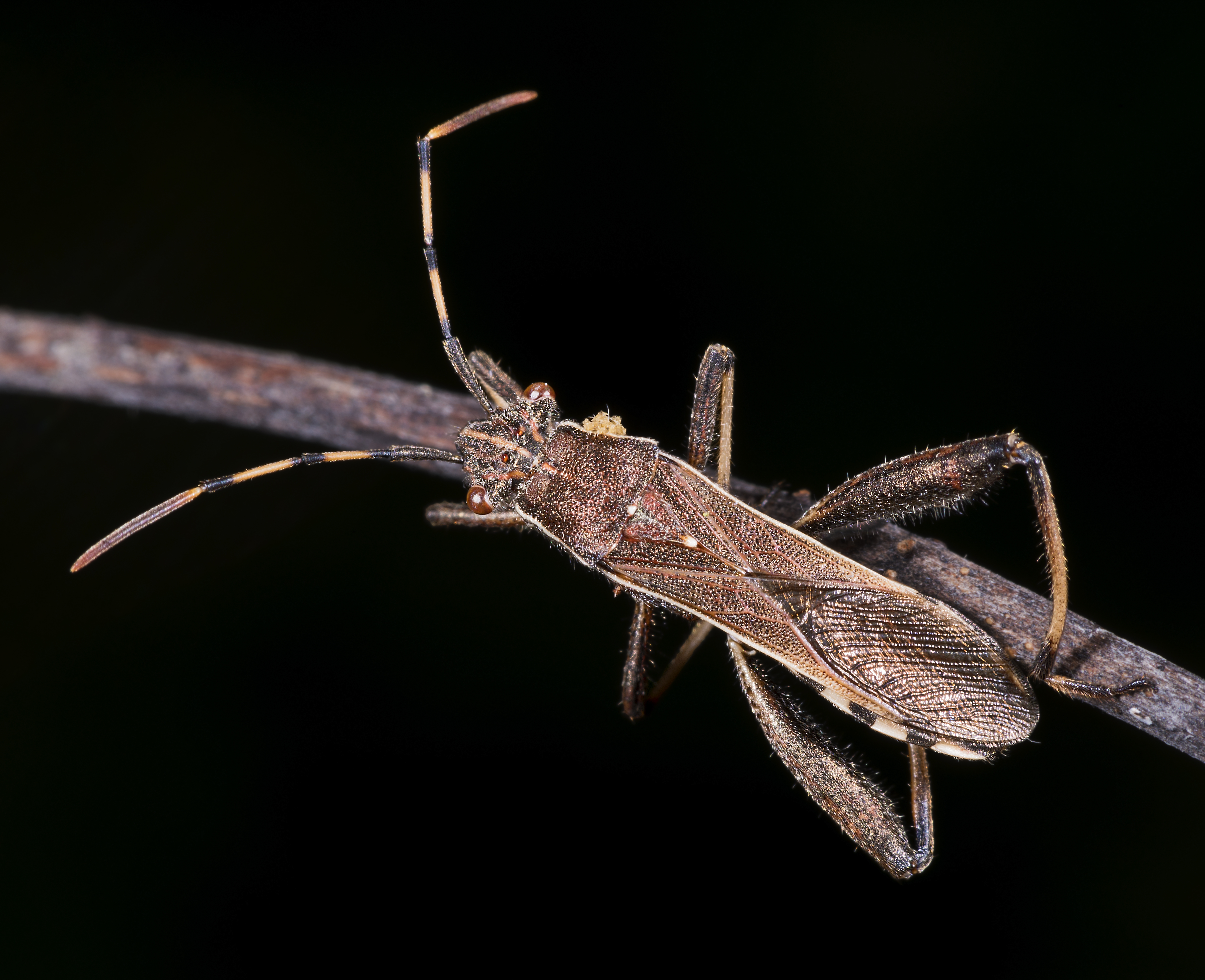 Broad-headed bug